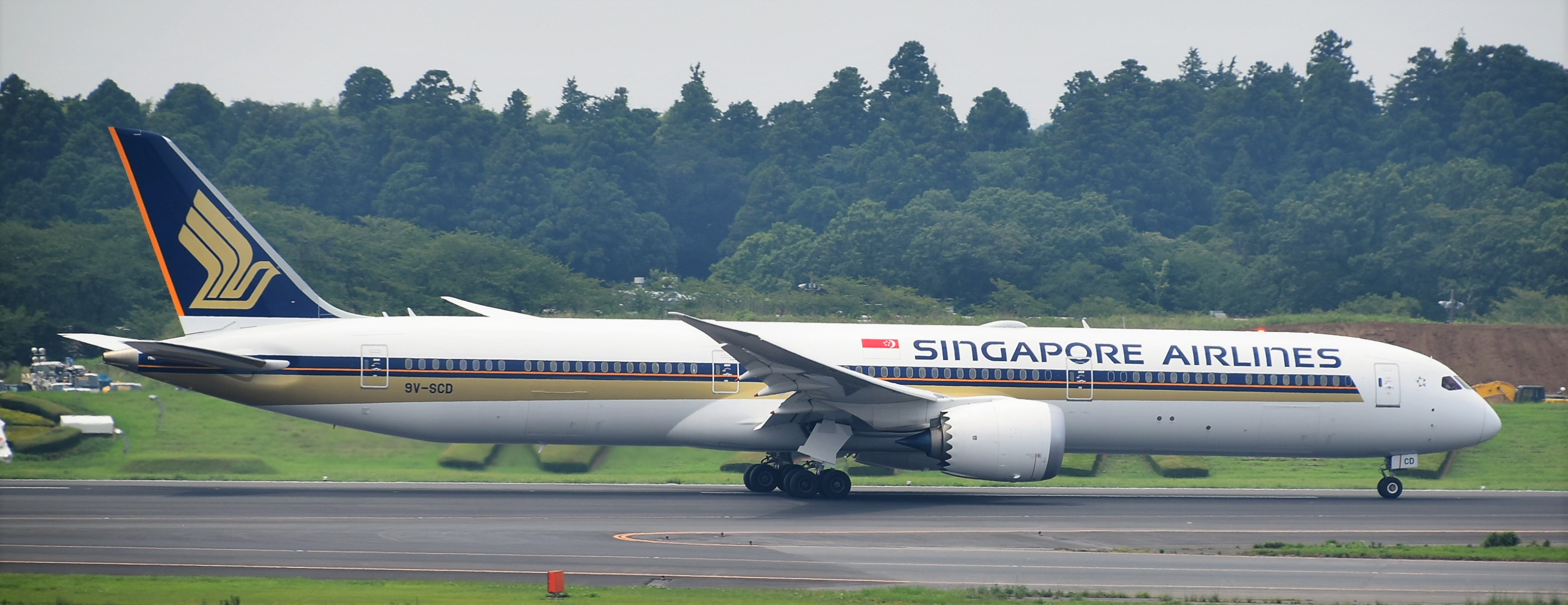 Boeing 787/10 of Singapore Airlines departing rwy.34L at Tokyo Narita-NRT, Japan, 16/07/18.